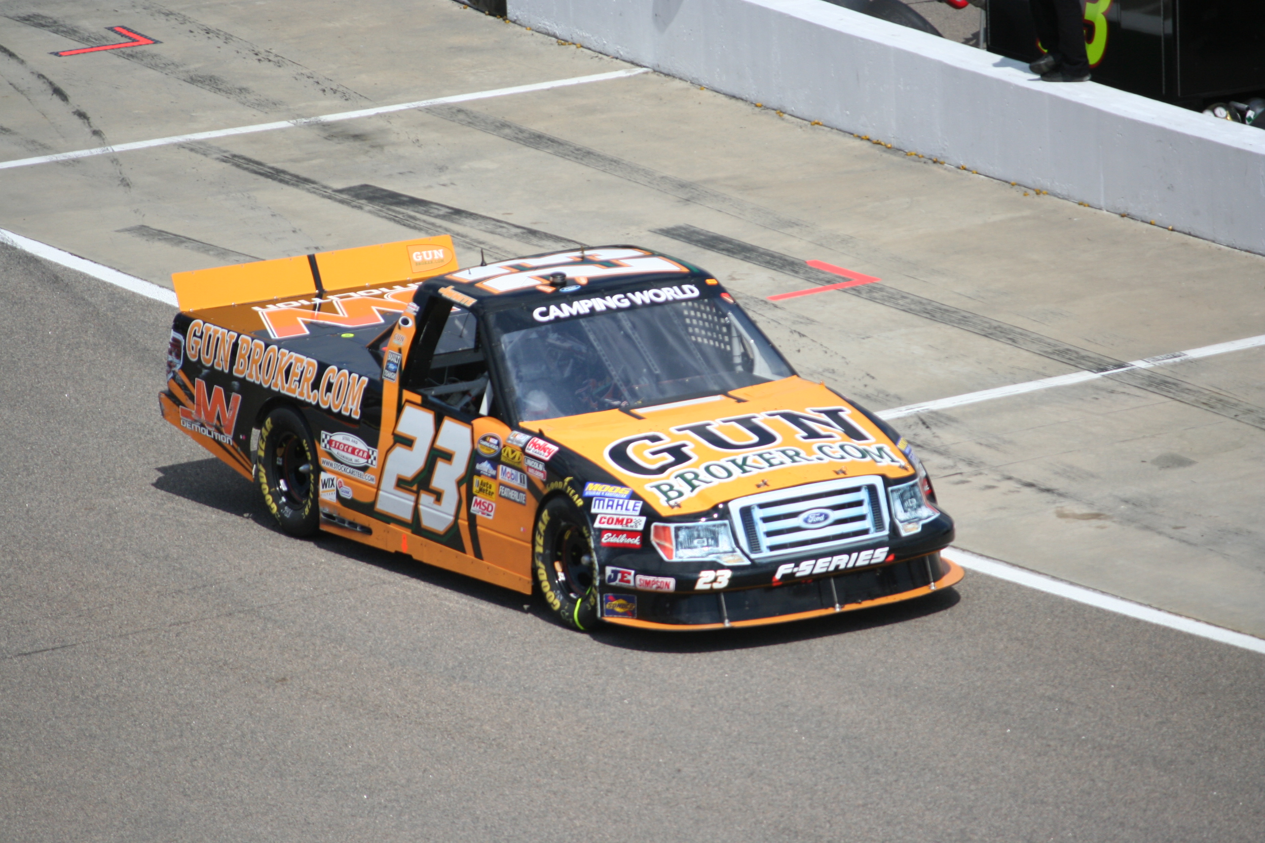 Jason White drives the No. 23 Gun Broker Ford on pit road during the 2012 Good Sam Carolina 200 at Rockingham Speedway.